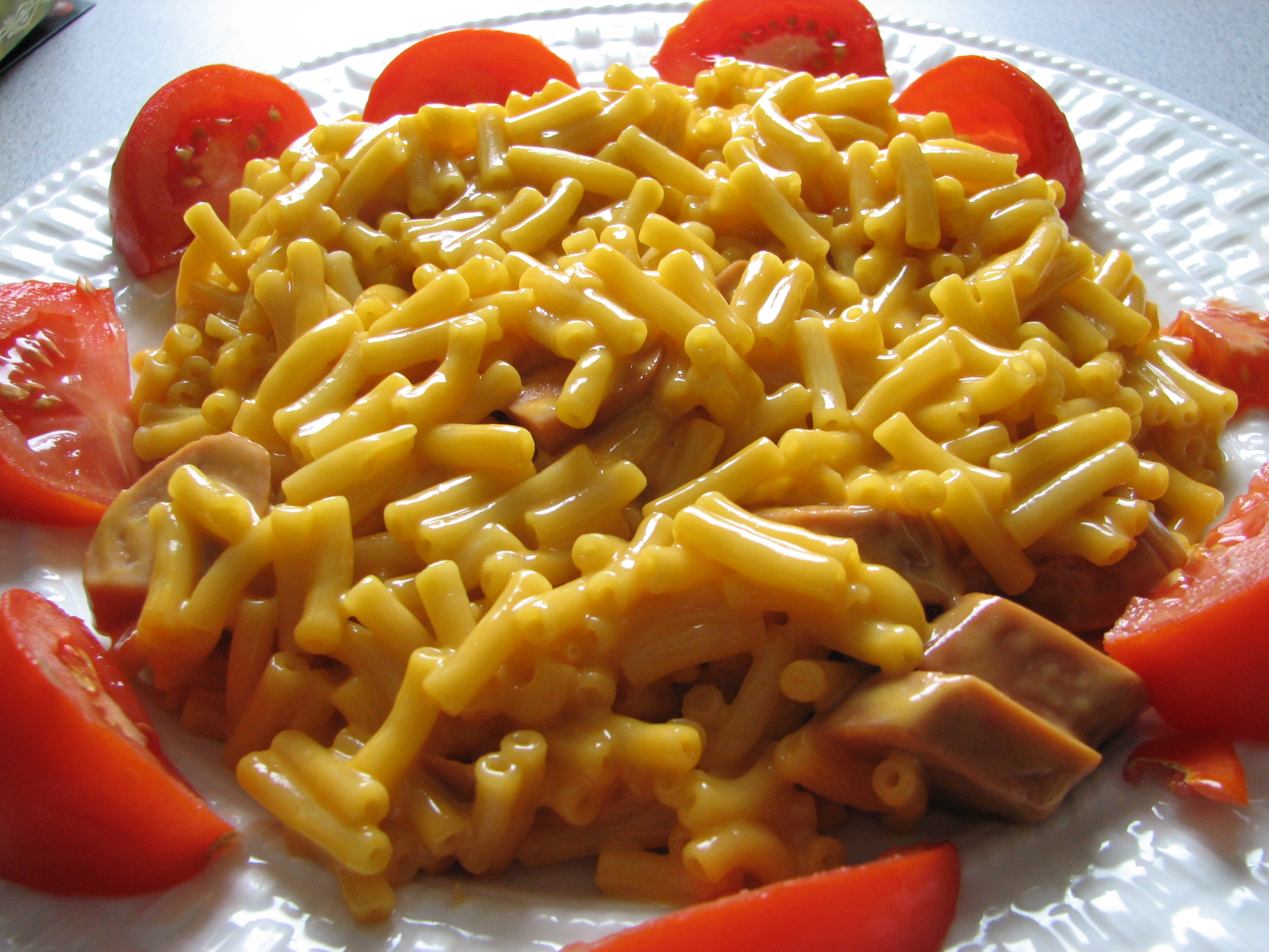 Kraft Dinner (macaroni and cheese) with added cheddar and sliced vegetarian hot dogs arranged on a plate and bordered by tomato wedges. Photographer's comment: "The secret to great KD is dumping a few noodles out before mixing in the cheese, as well as tossing in a little finely cut old cheddar prior to serving. Good KD is measured by its fluorescent orange glow."